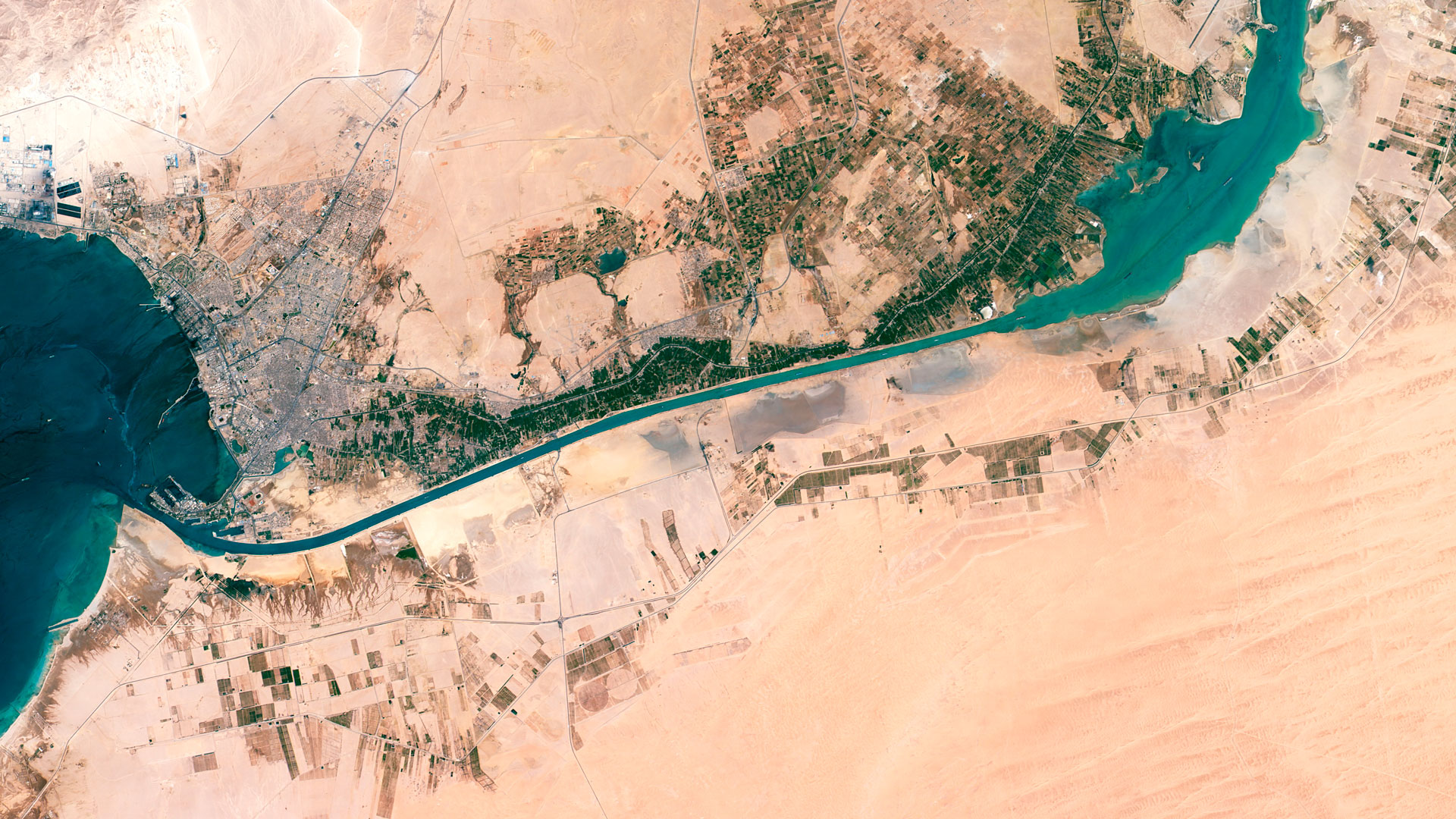 Southern part of Suez Canal in Egypt, as viewed from Hodoyoshi satellite.